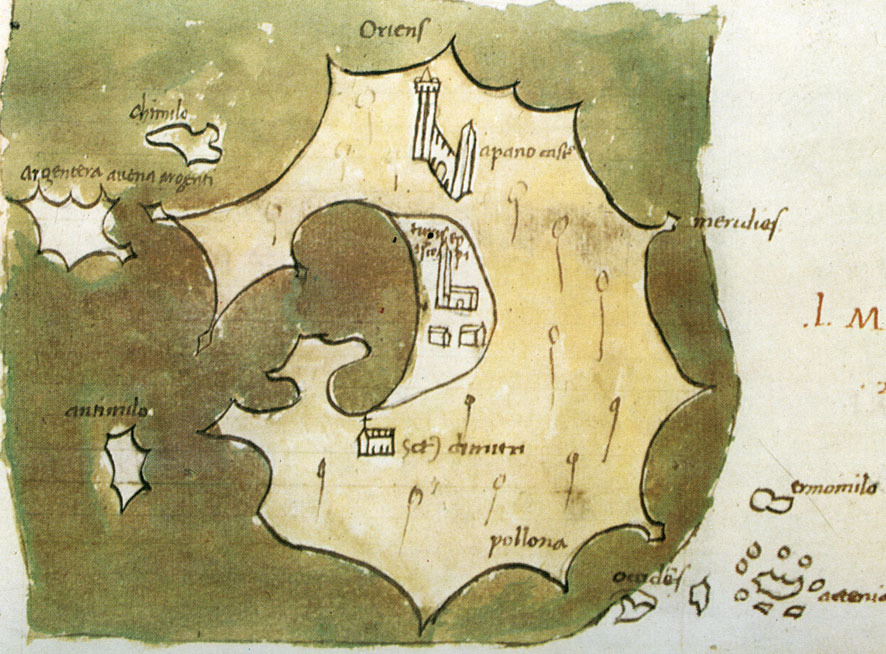 Cristoforo Buondelmonti, Liber Insularum Archipelagi (1420), Milos island, Aegean Sea